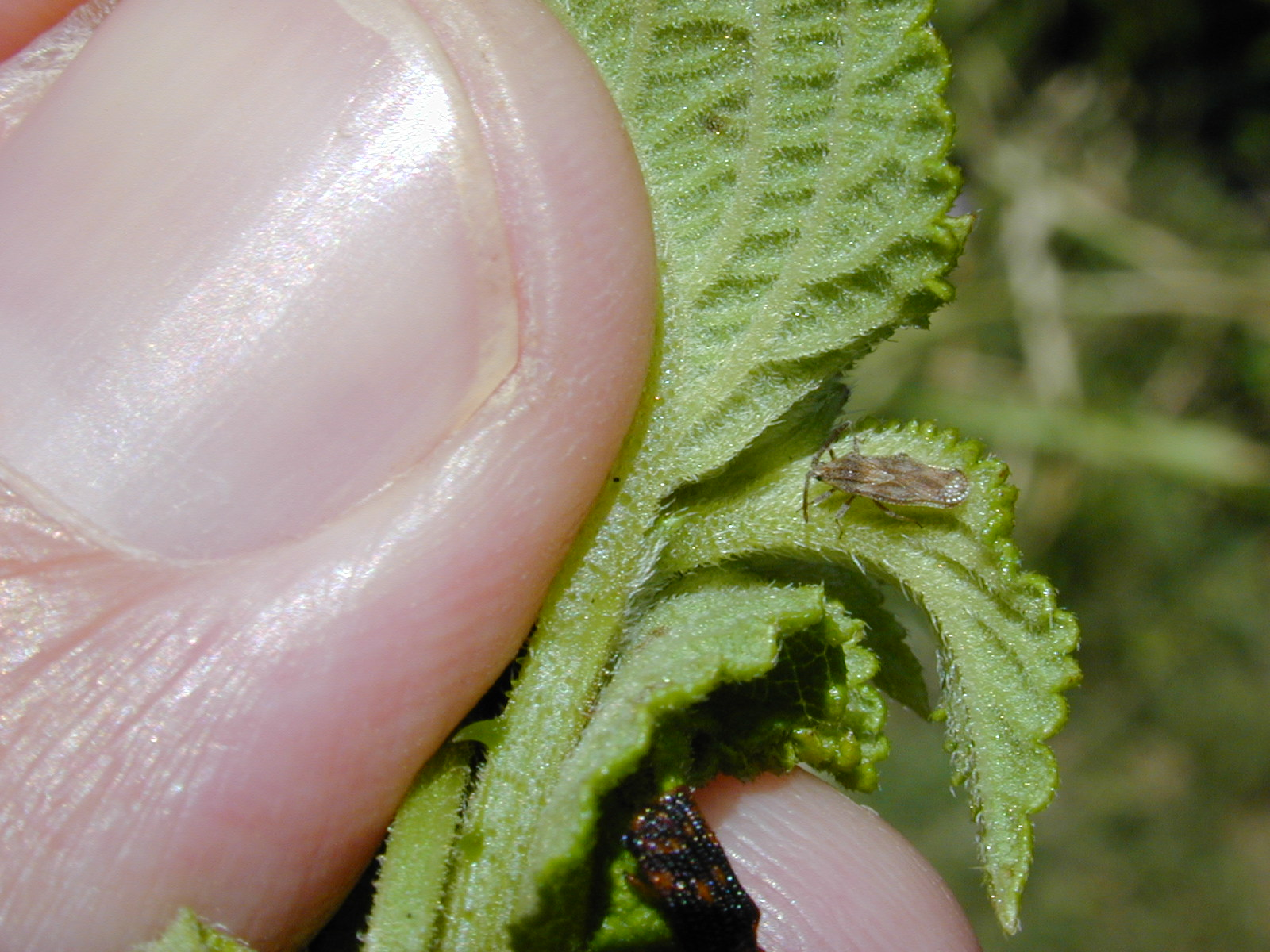 Lantana camara (Teleonemia scrupulosa Lantana lace bug). Location: Maui, Kapalua